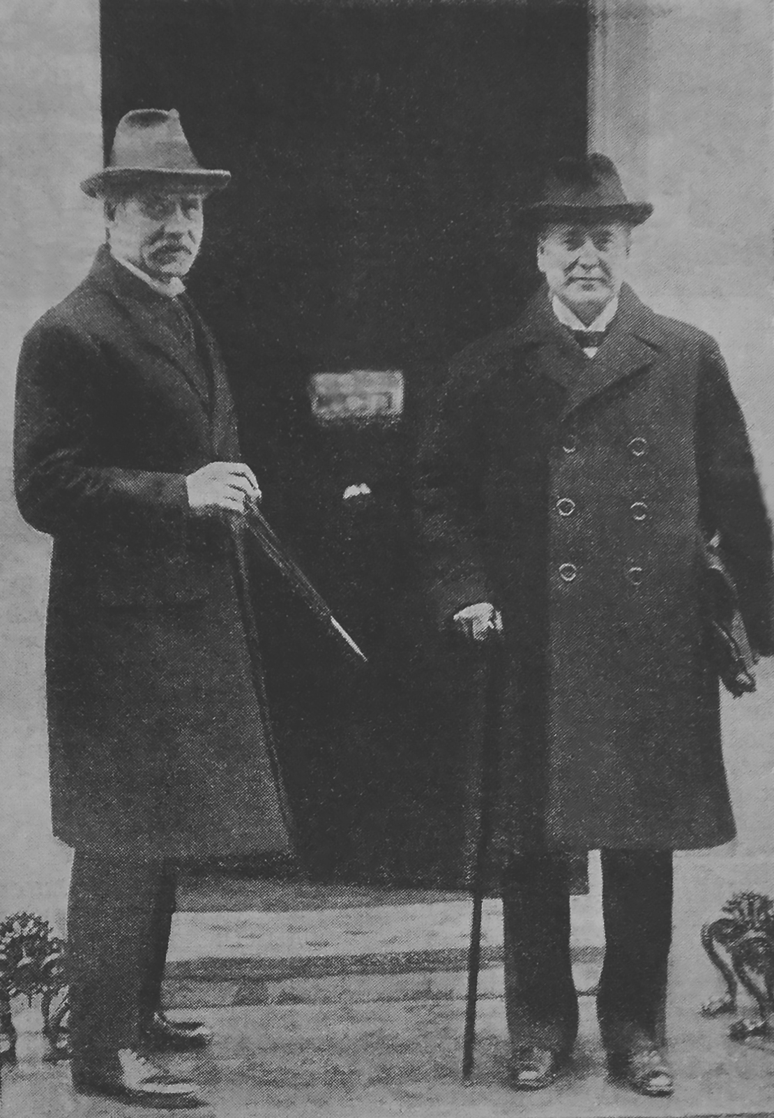 Ramsay MacDonald, Prime Minister UK and Christian Rakovsky, Head of the Soviet diplomatic delegation. Place: London, 10 Downing Street. Date: formal recognition of USSR by United Kingdom Feb 1924. Context: the formal recognition and establishment of the diplomatic relations was extremely important for the Soviet government. Christian Rakovsky left the senior post of Chairman of the Council of People's Commissars (Prime Minister) of the Ukrainian SSR to lead the mission to establish the diplomatic relations with UK. Arthur Koestler, based Rubashov, the main character in his 1940 novel Darkness at Noon, on Christian Rakovsky. Rakovsky was shot on Stalin's orders in the Medvedev Forest massacre .